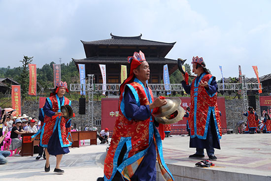 Nuo priests conducting ritual at the Chiyou Nuo Temple in Xinhua, Hunan.